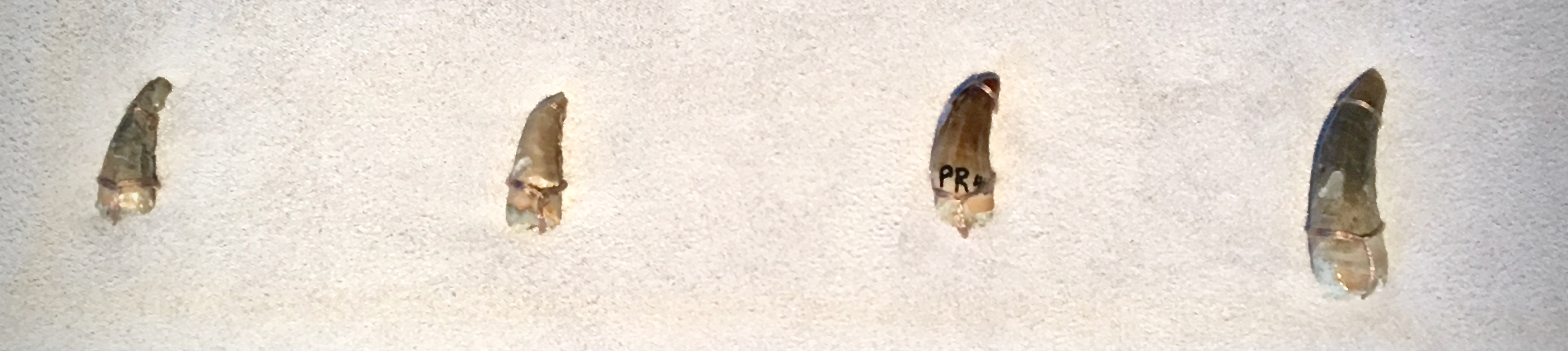 Teeth of a juvenile Cryolophosaurus